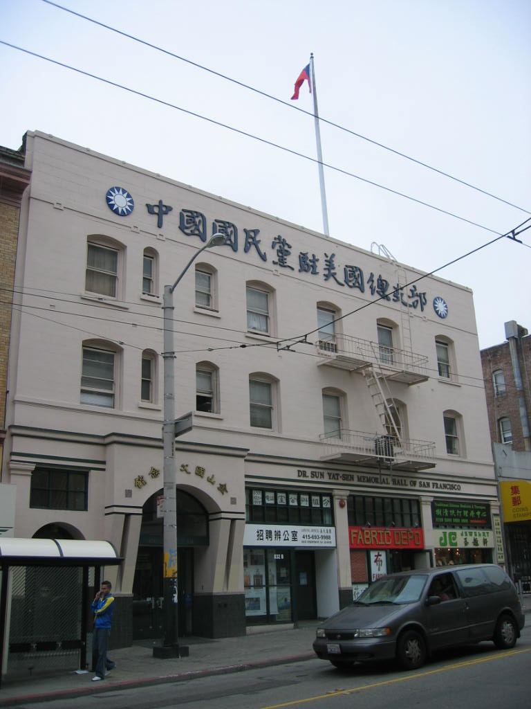 Dr. Sun Yat-sen Memorial Hall of San Francisco: Headquarters of the Chinese Kuomintang in North America.